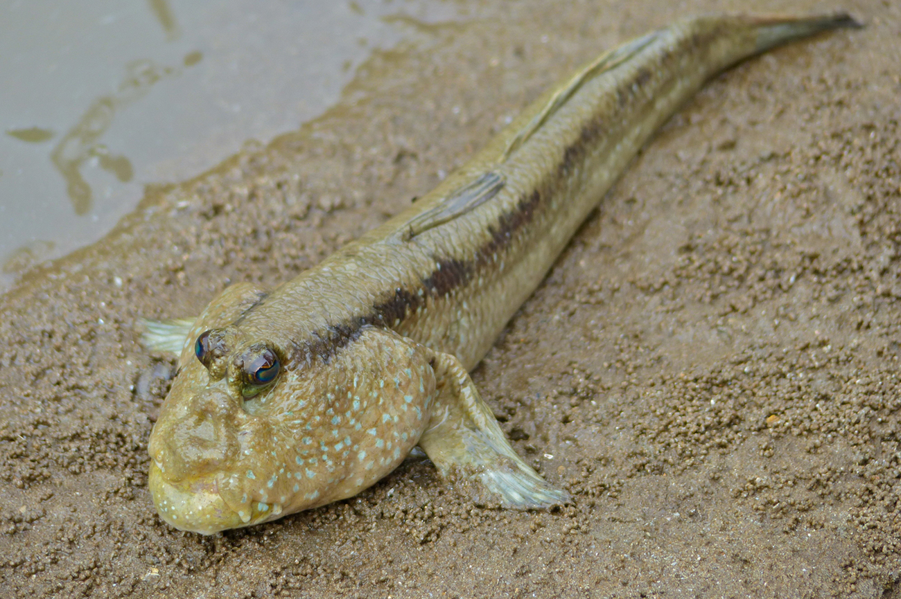 A Giant Mudskipper, Periophthalmodon freycineti, in Bako National Park, Sarawak, Malaysia, November 2001